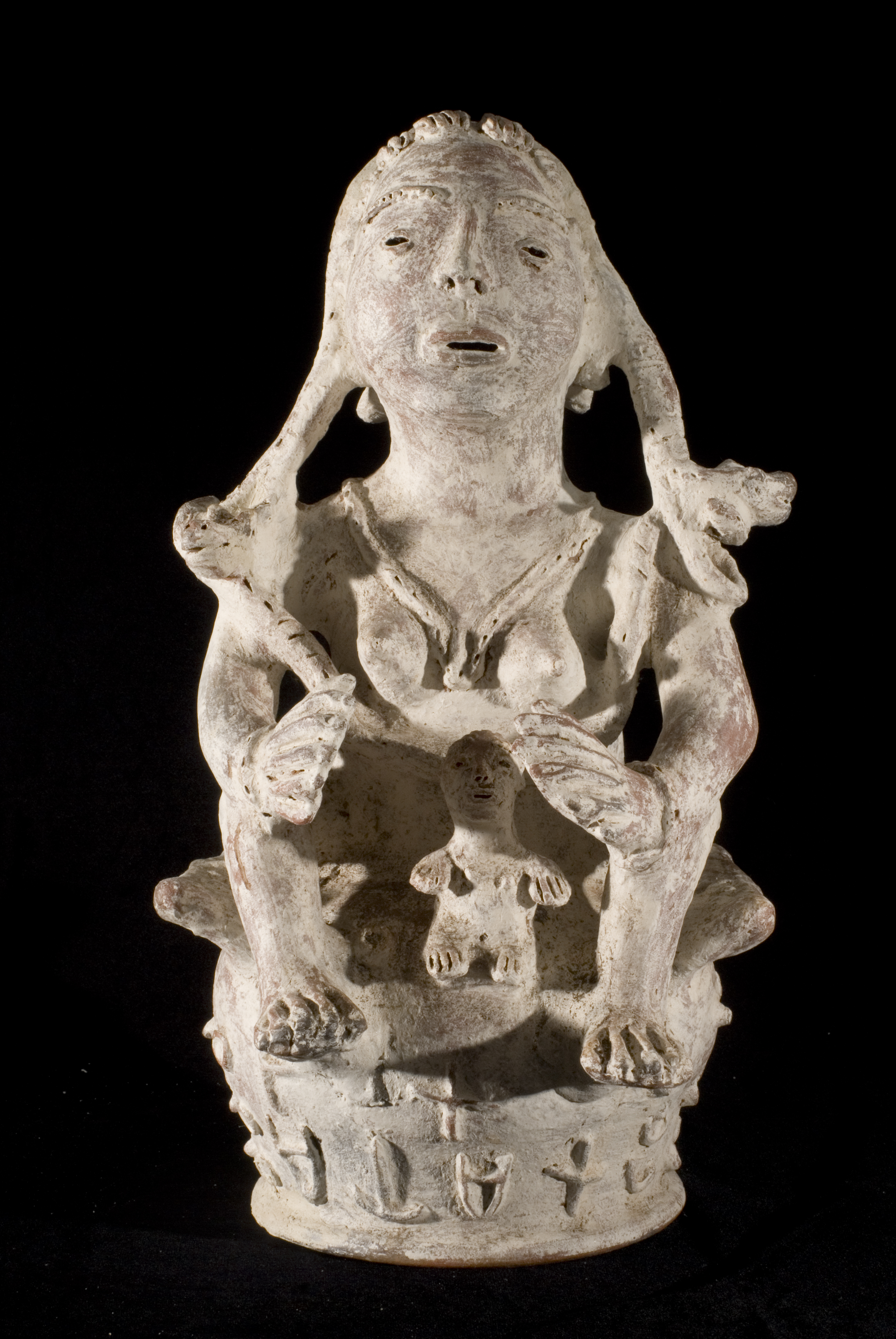 Mami Wata (Mammy Water) sculpture from the Ewe people from Ghana (20th century).